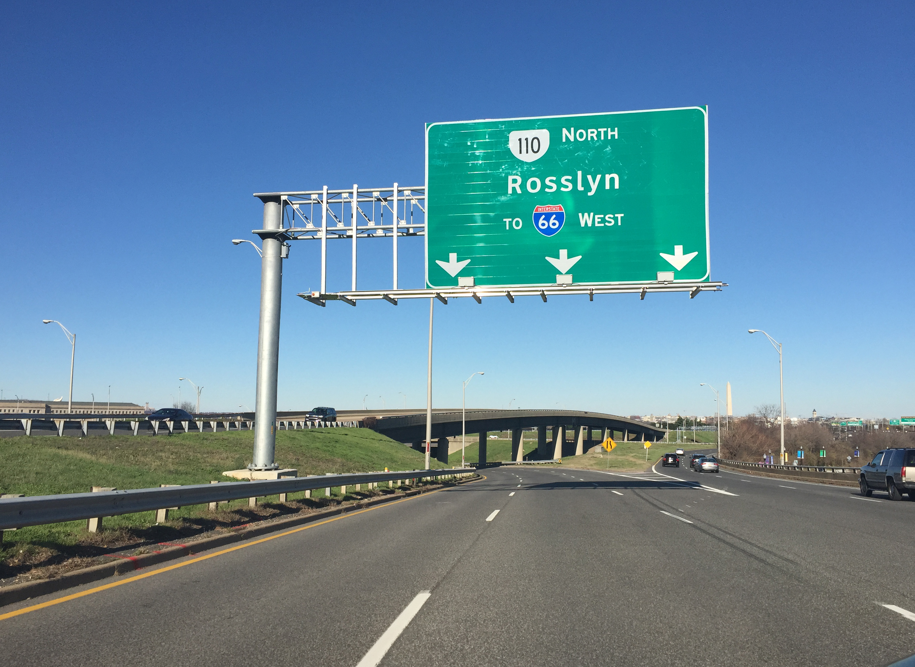 View north along U.S. Route 1 (Jefferson Davis Highway) at the exit for Virginia State Route 110 NORTH (Rosslyn, To Interstate 66 WEST) in Crystal City, Arlington County, Virginia